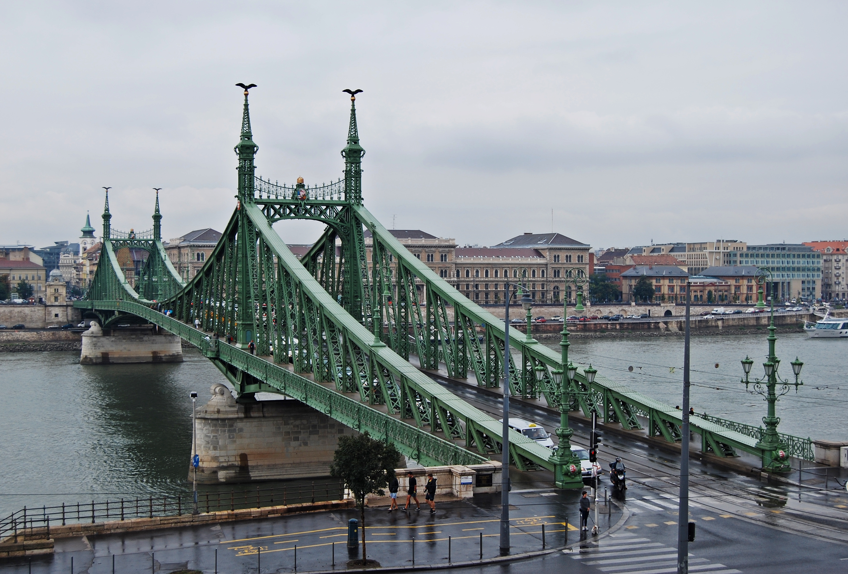 The Liberty Bridge in Budapest which connects Buda and Pest across the River Danube.